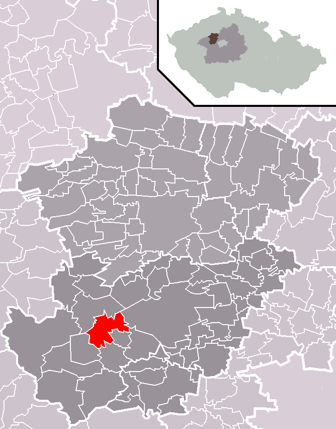 Location of Kamenné Žehrovice municipality within Kladno District and administrative area of Kladno as a Municipality with Extended Competence.